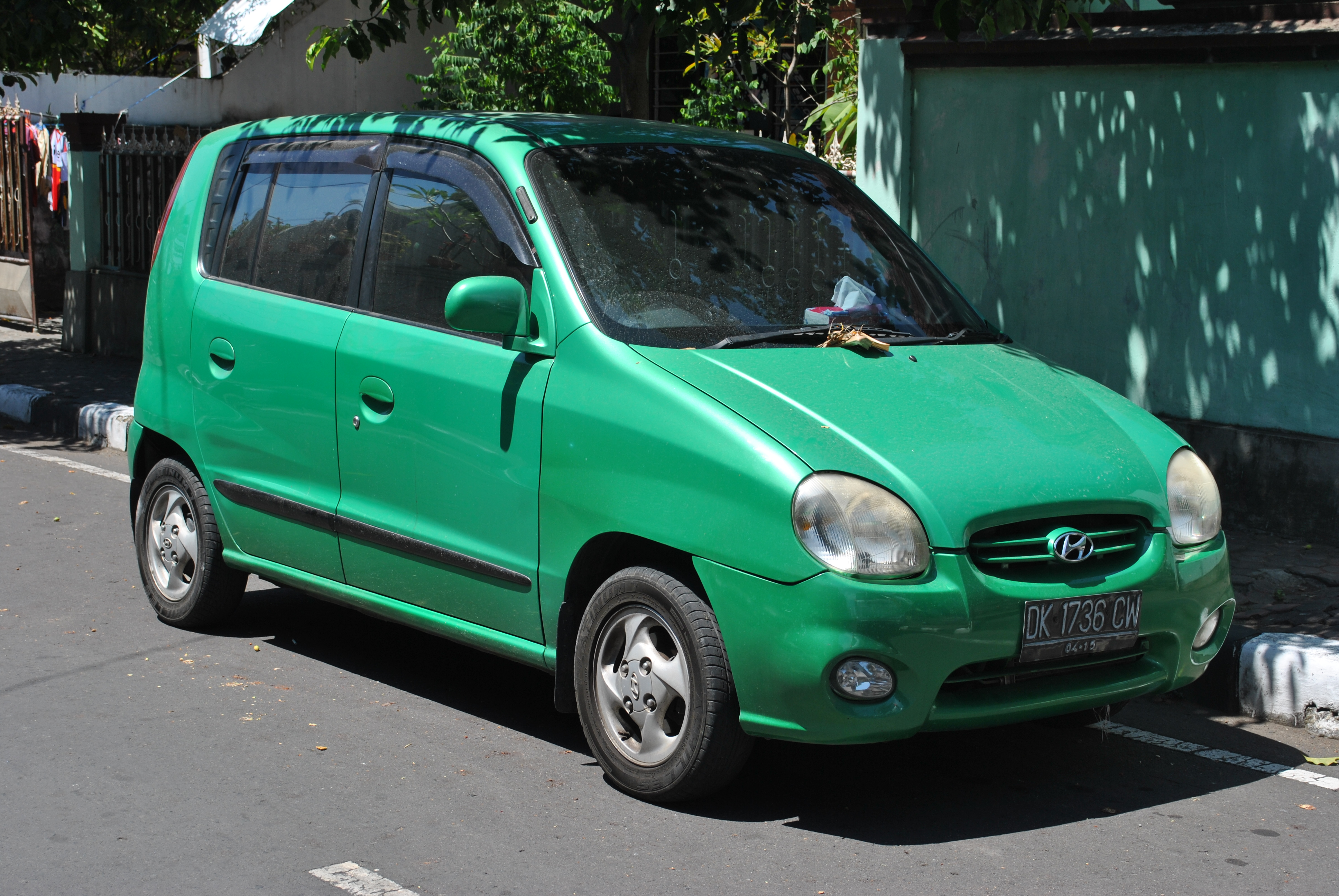 Title says it all. Logically, this is Hyundai Atos with s inverted.